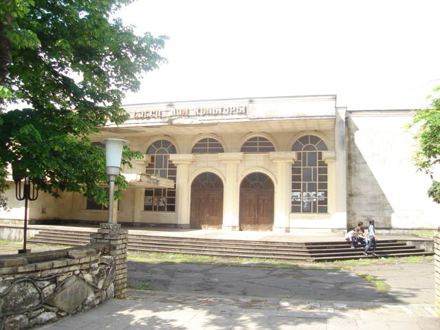 Narazeni Culture Center Building, Front side